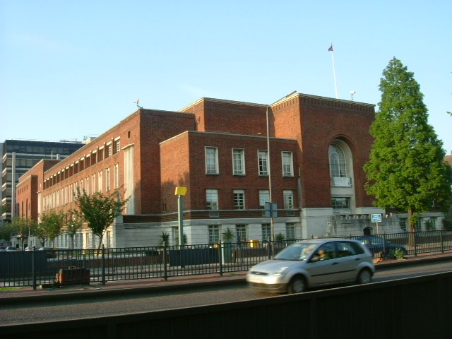 Hammersmith Town Hall in daylight Hammersmith Town Hall this time taken on the left of the tree. The bigger building to the left and back of the 1930's version is the soon to be demolished modern main entrance.